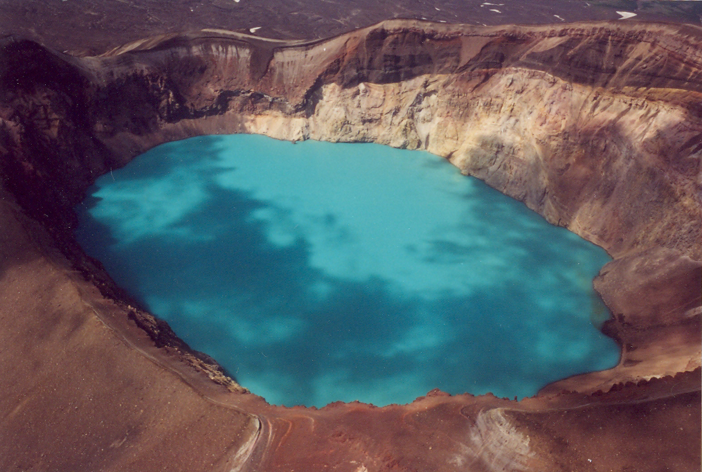 Maly Semjatschik crater lake